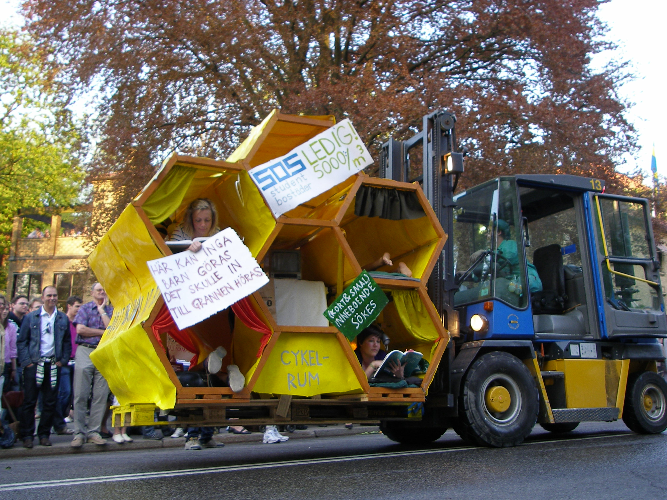 The Chalmers Cortège of 2009, with a carriage satirizing over the confined living of students.